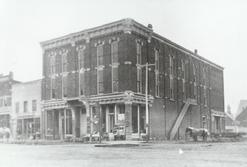 Historic picture of the Howell Opera House